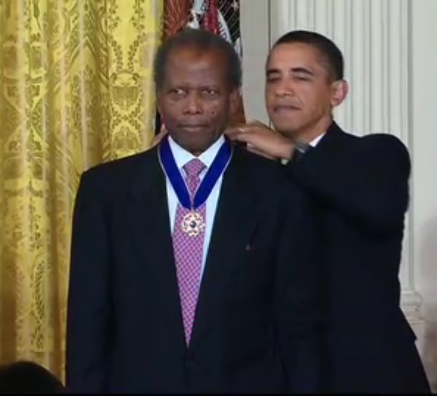 Actor Sidney Poitier receives the Presidential Medal of Freedom from President Barack Obama on August 12, 2009.